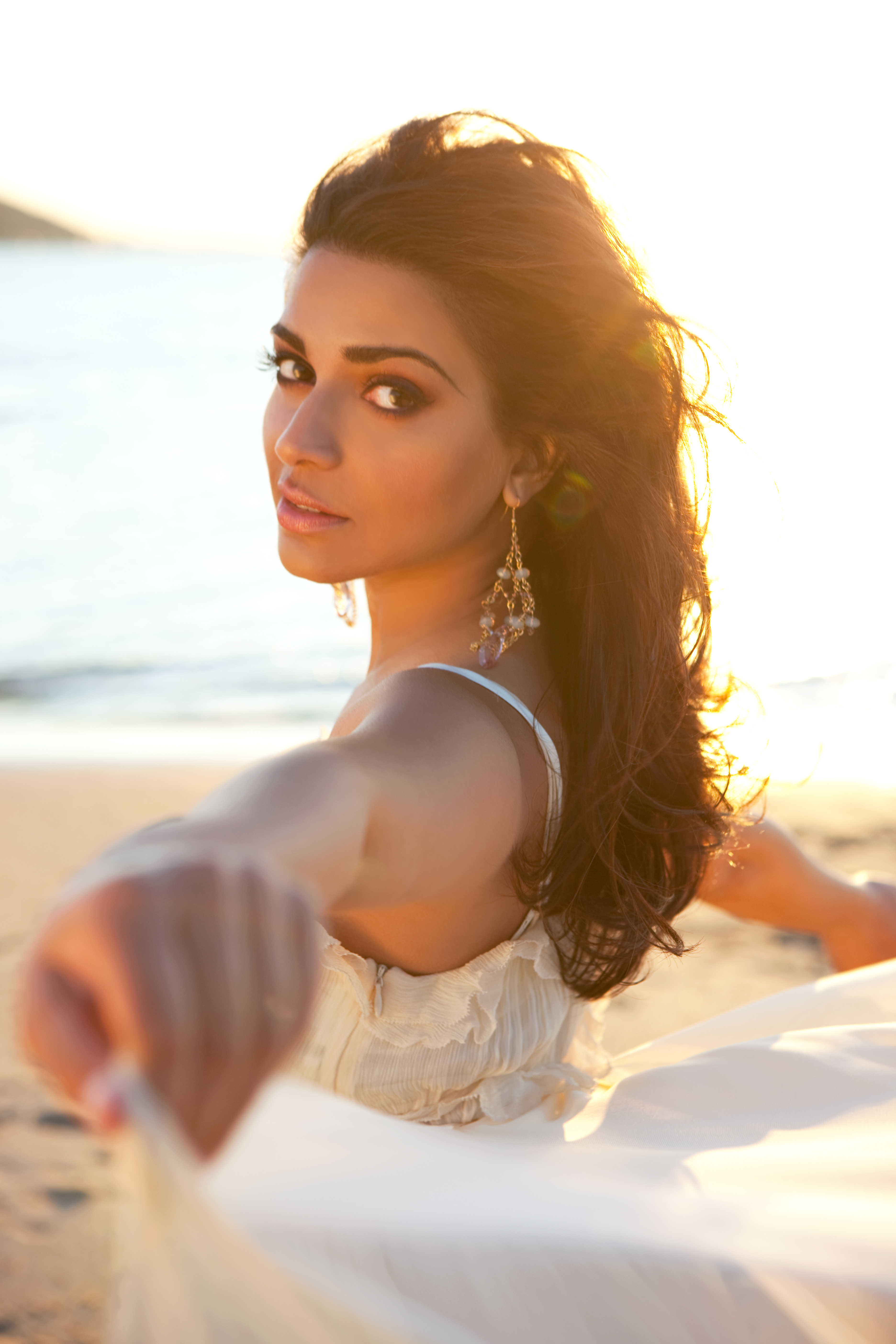 Nadia Ali "Fantasy" cover image